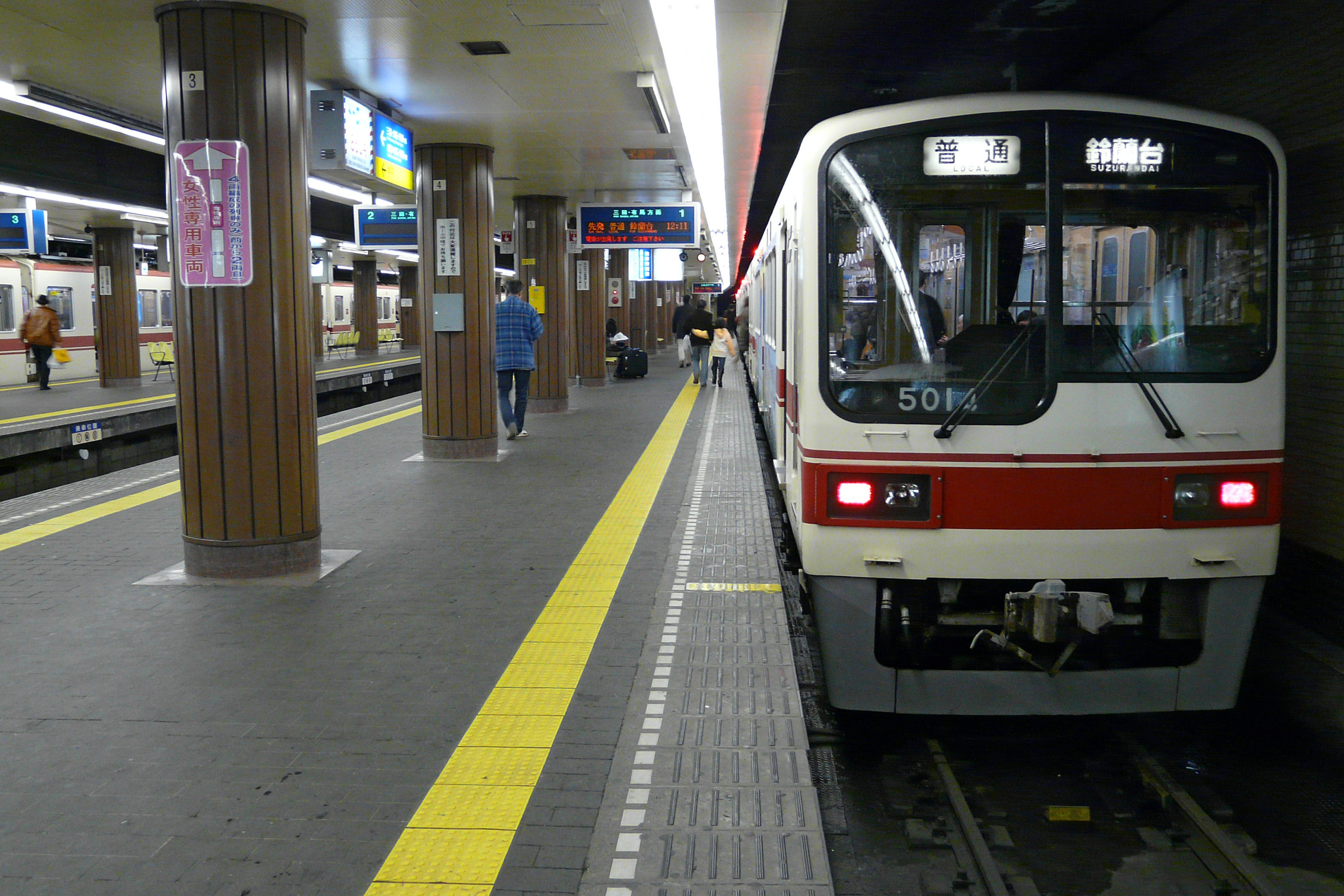 Shinkaichi Station in Kobe, Hyogo prefecture, Japan